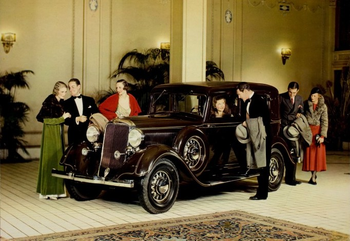 Dodge aimed for the luxury market in this advertisement for the 1933 models. Accession Number: 1971:0034:0012. Color print, assembly (Carbro) process".